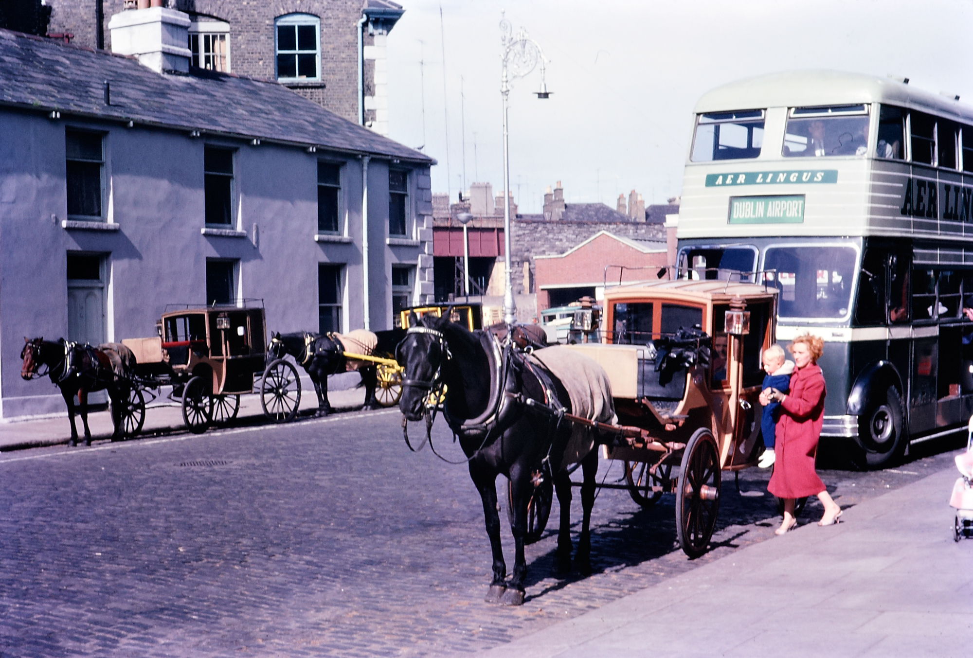 Has this woman chosen the slower mode of transport to get to Dublin Airport? We had no idea where in Dublin this photo was taken, but knew it must have been fairly central because of the style of lamp post in the background. Slow Loose Chippings, billh35, and especially mogey put in the legwork to prove that this photo was taken in Store Street, Dublin (near Busáras) - thanks one and all! Delighted also with this fantastic technical information on the bus from billh35: "Delivered in 1953 to CIE were six of these double deck coaches, numbered R541 to R546. They were Leyland OPD2/1's with bodies built by CIE. These were very stylishly finished vehicles, for the express service to Dublin Airport. They had centre entrance and staircase, seating for 50 and a large walk in luggage compartment behind the back axle. After 11 years on the airport service, they were converted to half cab rear platform buses. An example R541 (ZO 6960) is preserved." Date: September 1961 NLI Ref.: TIL560